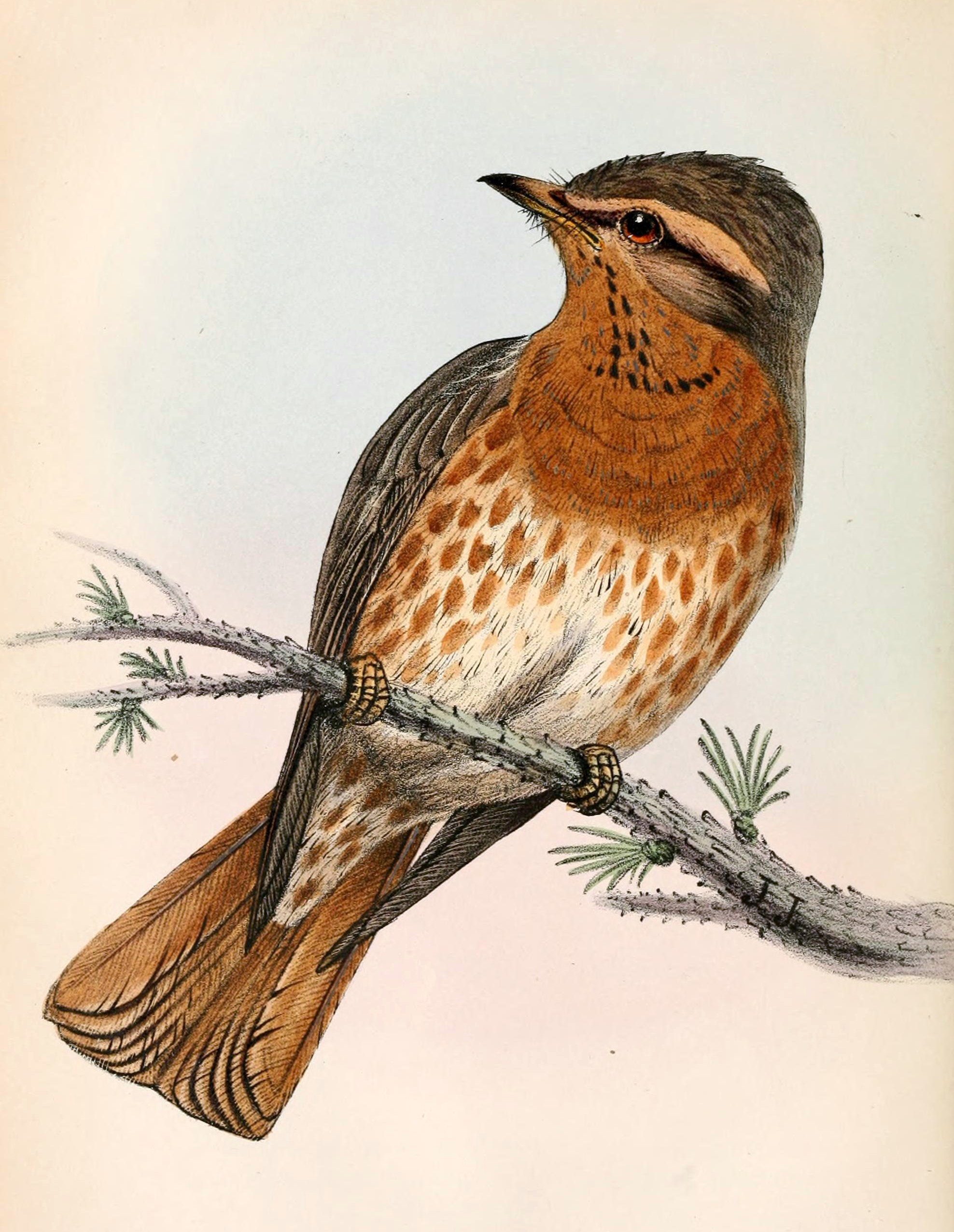 « Turdus naumanni » = Turdus naumanni (Naumann's Thrush)